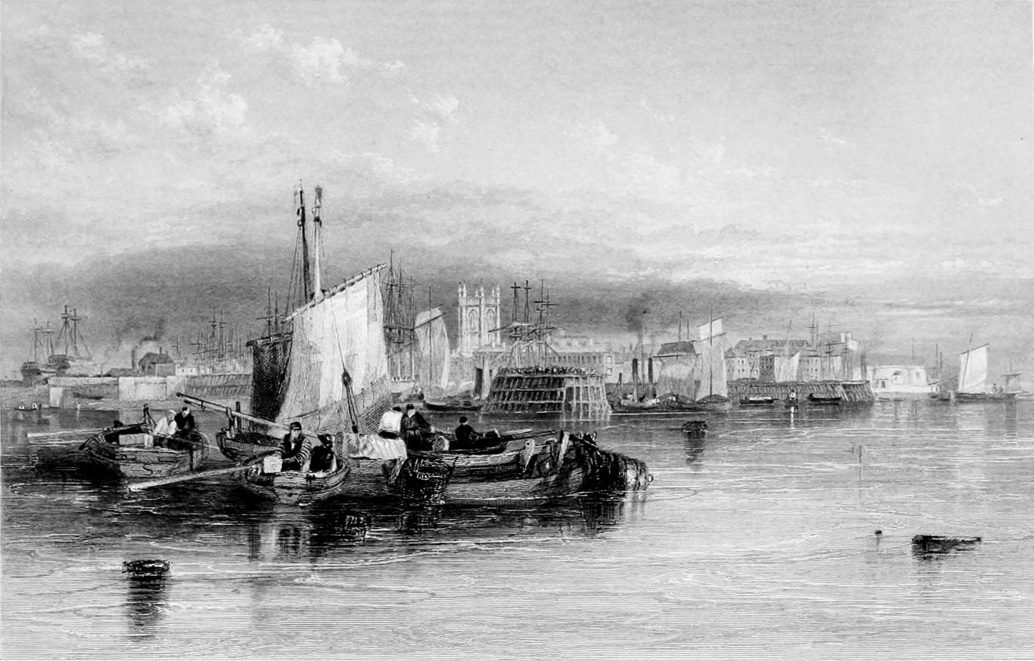 Kingston on Hull